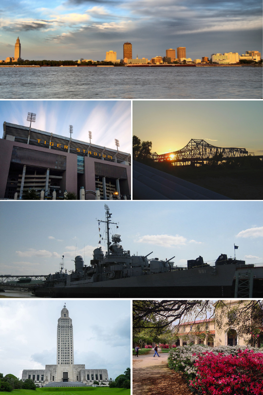 This is a collage of Baton Rouge, utilizing the following files: File:Baton Rouge skyline 2013.jpg, File:LSU Tiger Stadium.jpg, File:Horace Wilkinson Bidge Dusk.jpg, File:USS Kidd (DD-661) Baton Rouge.jpg, File:Baton Rouge Capitol Building.jpg, and File:Lastatefosterquad.jpg.